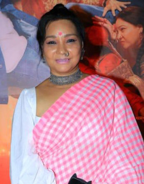 Actress Sunita Rajwar at the trailer success party of Shubh Mangal Zyada Saavdhan